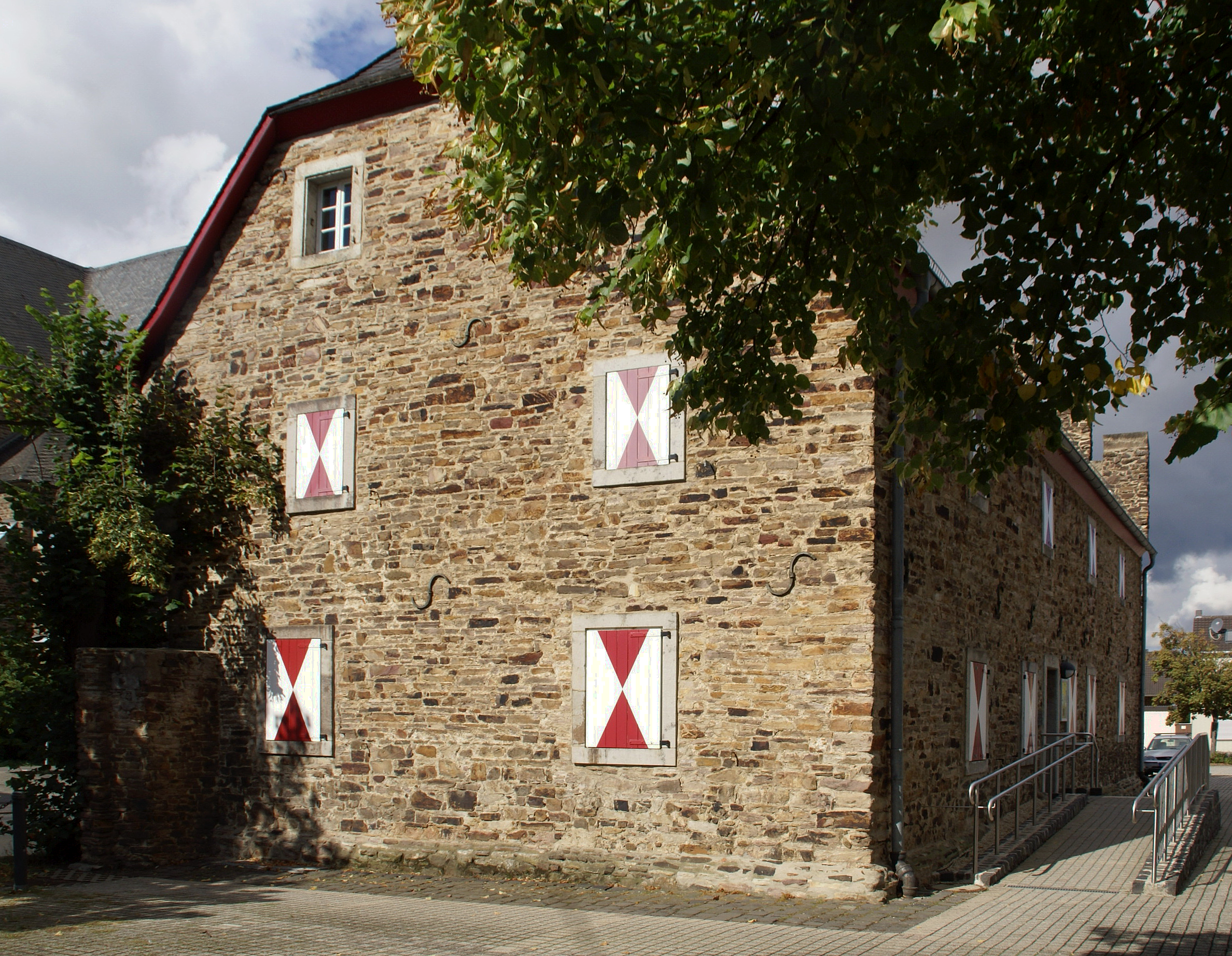 The socalled Zehnthaus in Odendorf, Am Zehnthof 1. View from the church Alt Petrus und Paulus